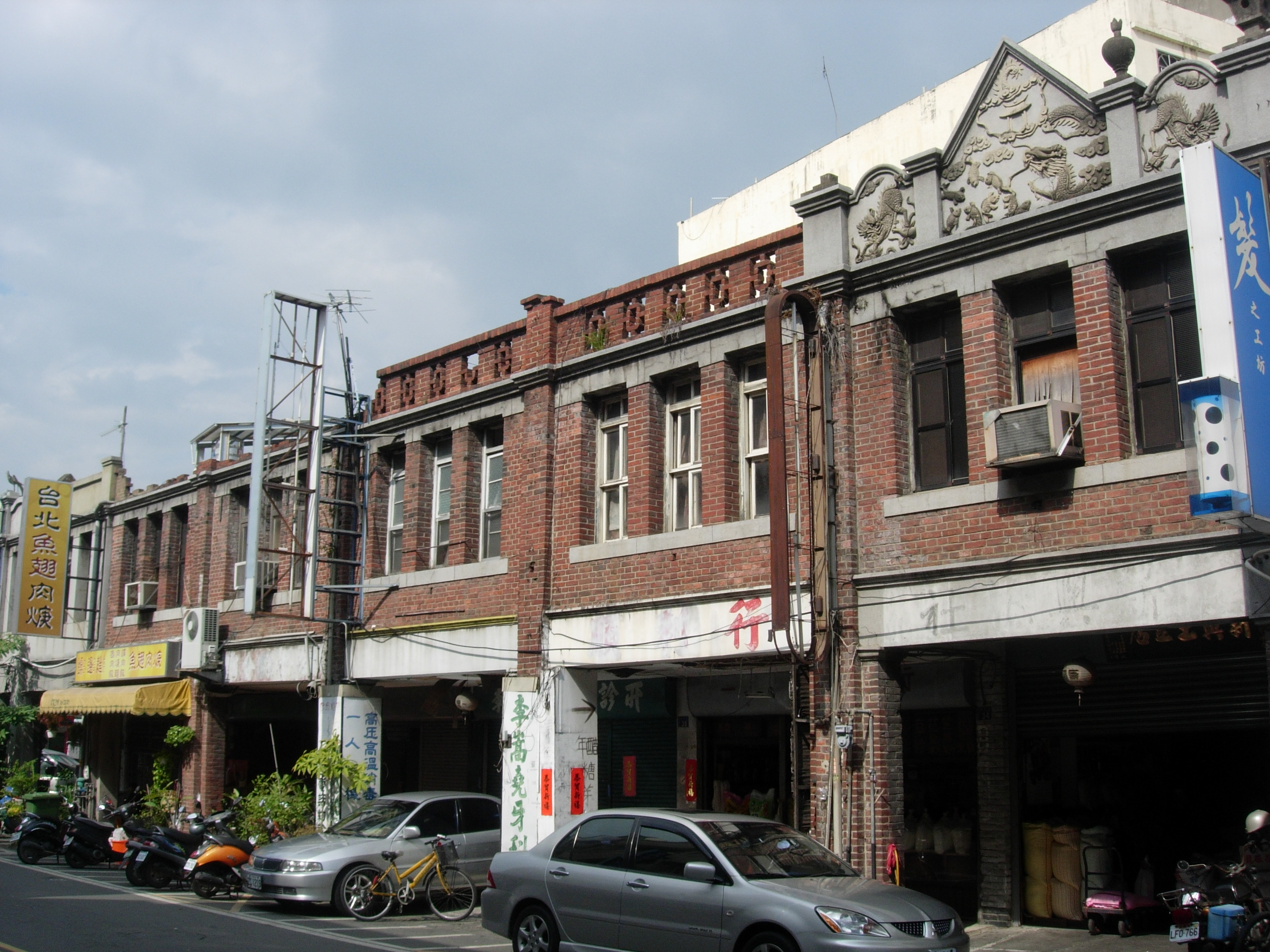 Tsaotun Old Street 1